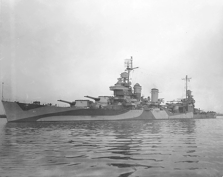 The U.S. Navy heavy cruiser USS Tuscaloosa (CA-37) off the Philadelphia Naval Shipyard, Pennsylvania (USA), on 10 November 1944. She is wearing Camouflage Measure 32, Design 13D.